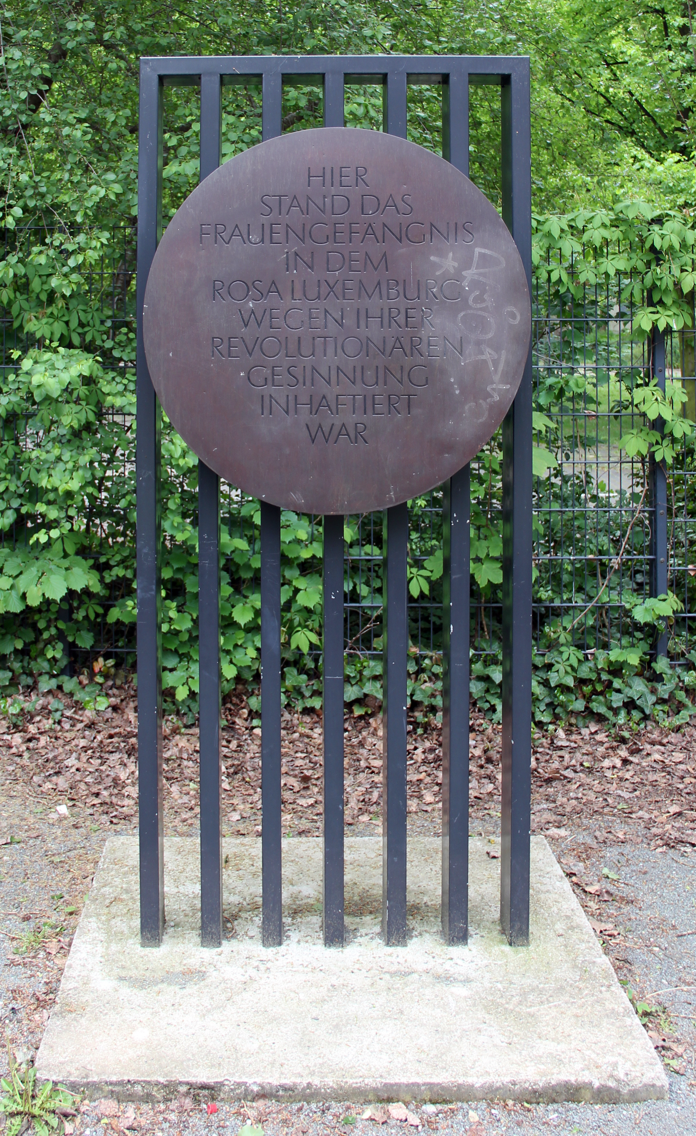 Memorial plaque, Rosa Luxemburg, Weinstraße 2, Berlin-Friedrichshain, Germany